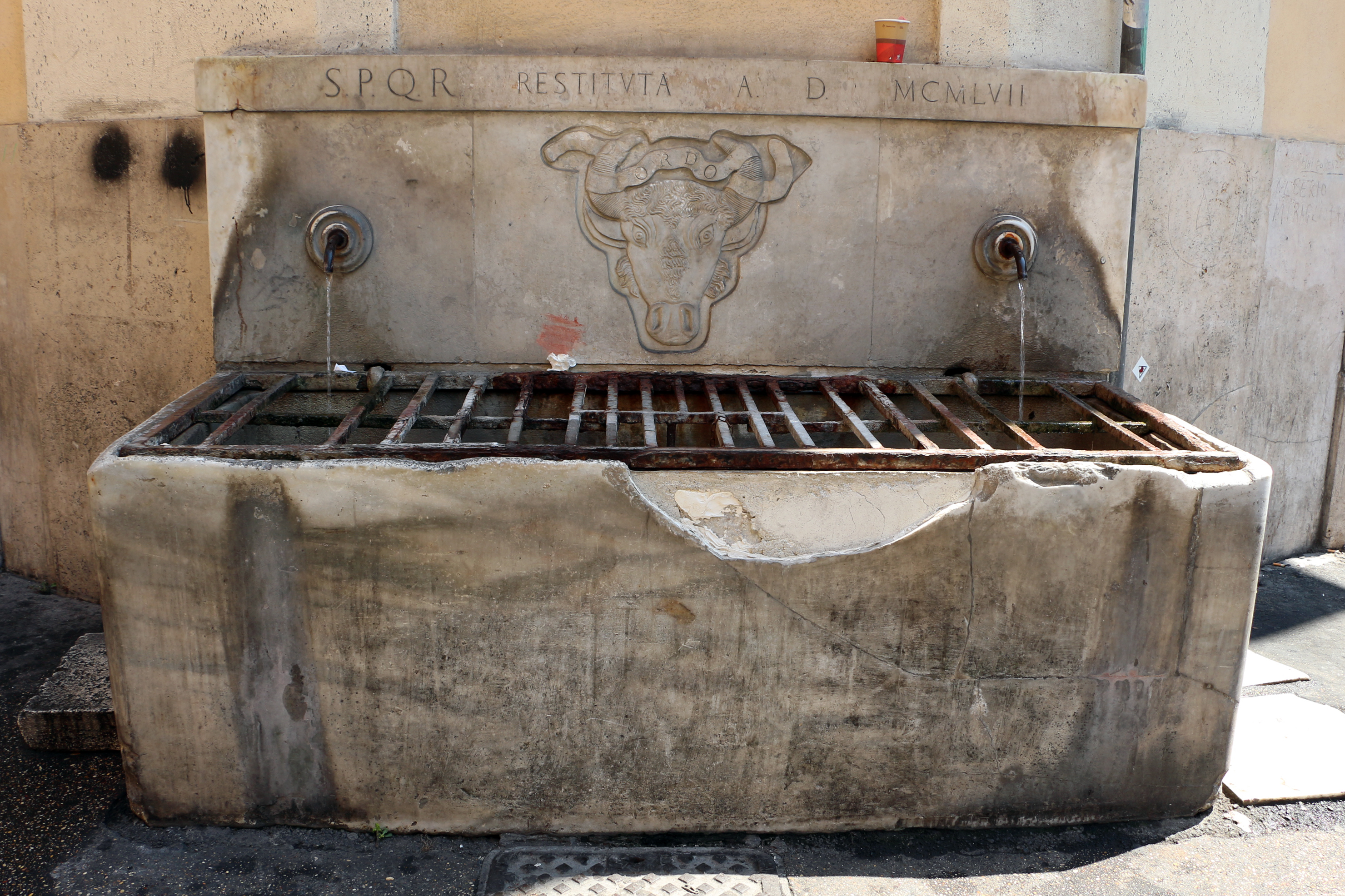 Palazzo Del Bufalo (Rome)